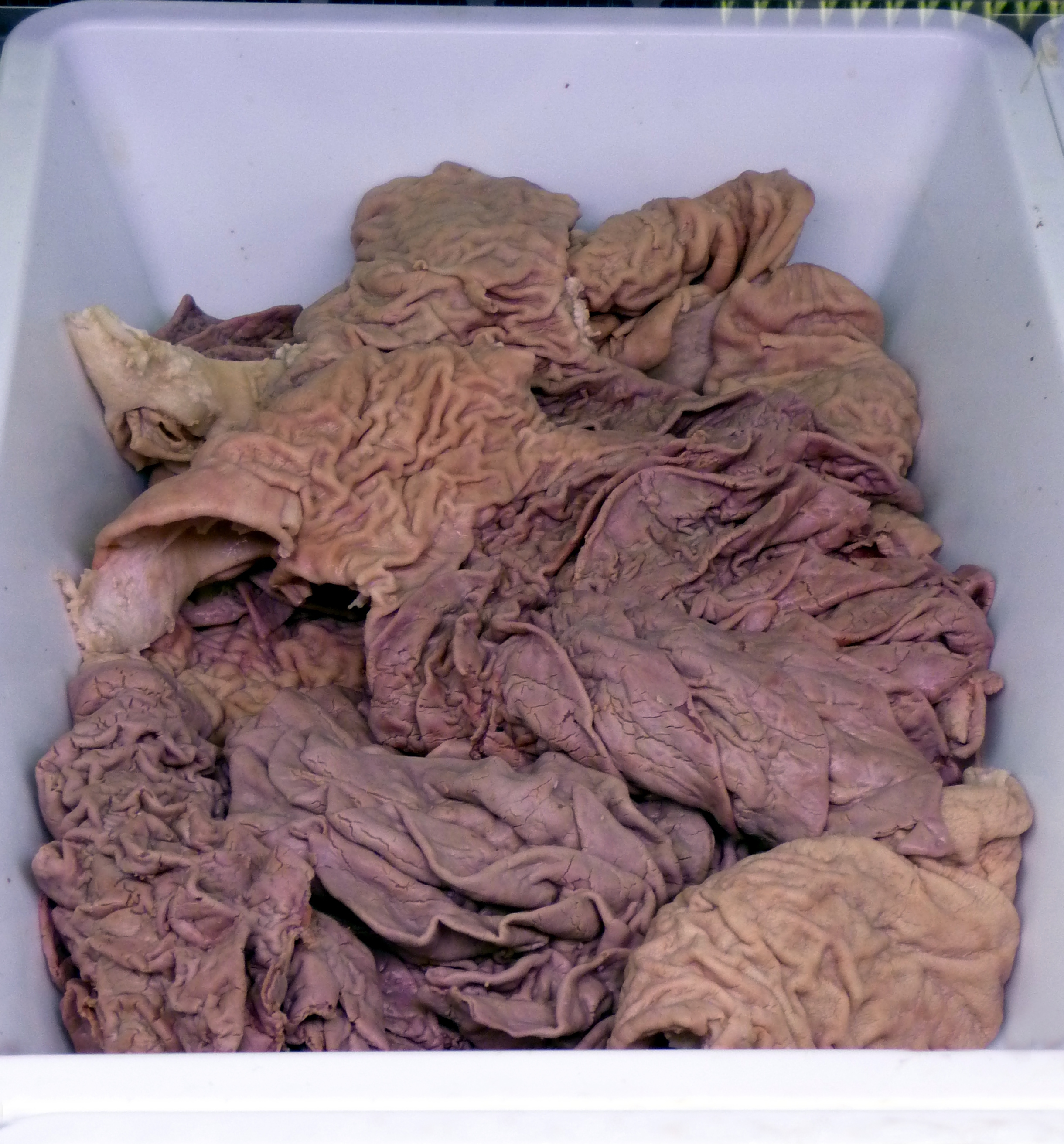 Lampredotto (Bovine abomasum), pre-boiled on the market. Foto made in Florence, Italy.